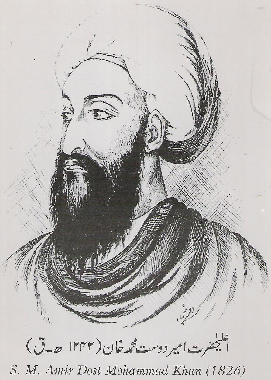 Dost Mohammad Khan, Emir of Afganistan (b.1793-d.1863)